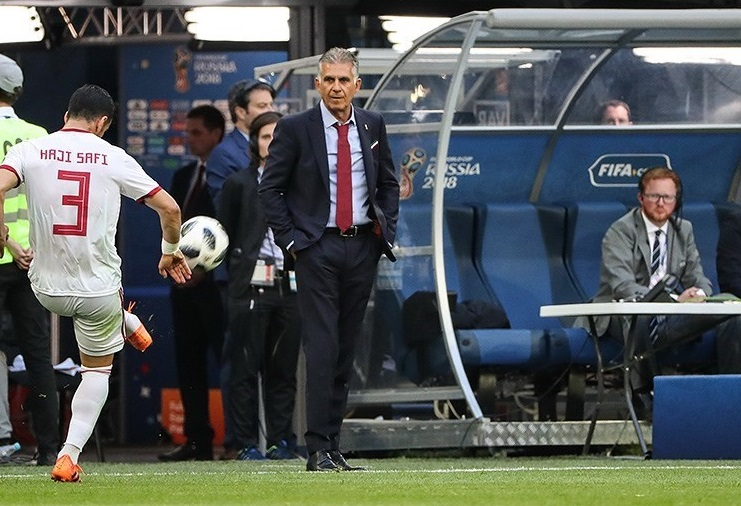 Iran-Morocco match, Group B, 2018 FIFA World Cup